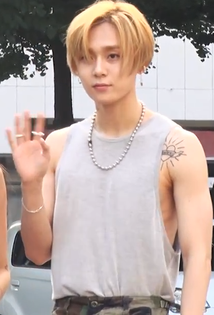 Triple H going to a Music Bank recording on July 22, 2018.